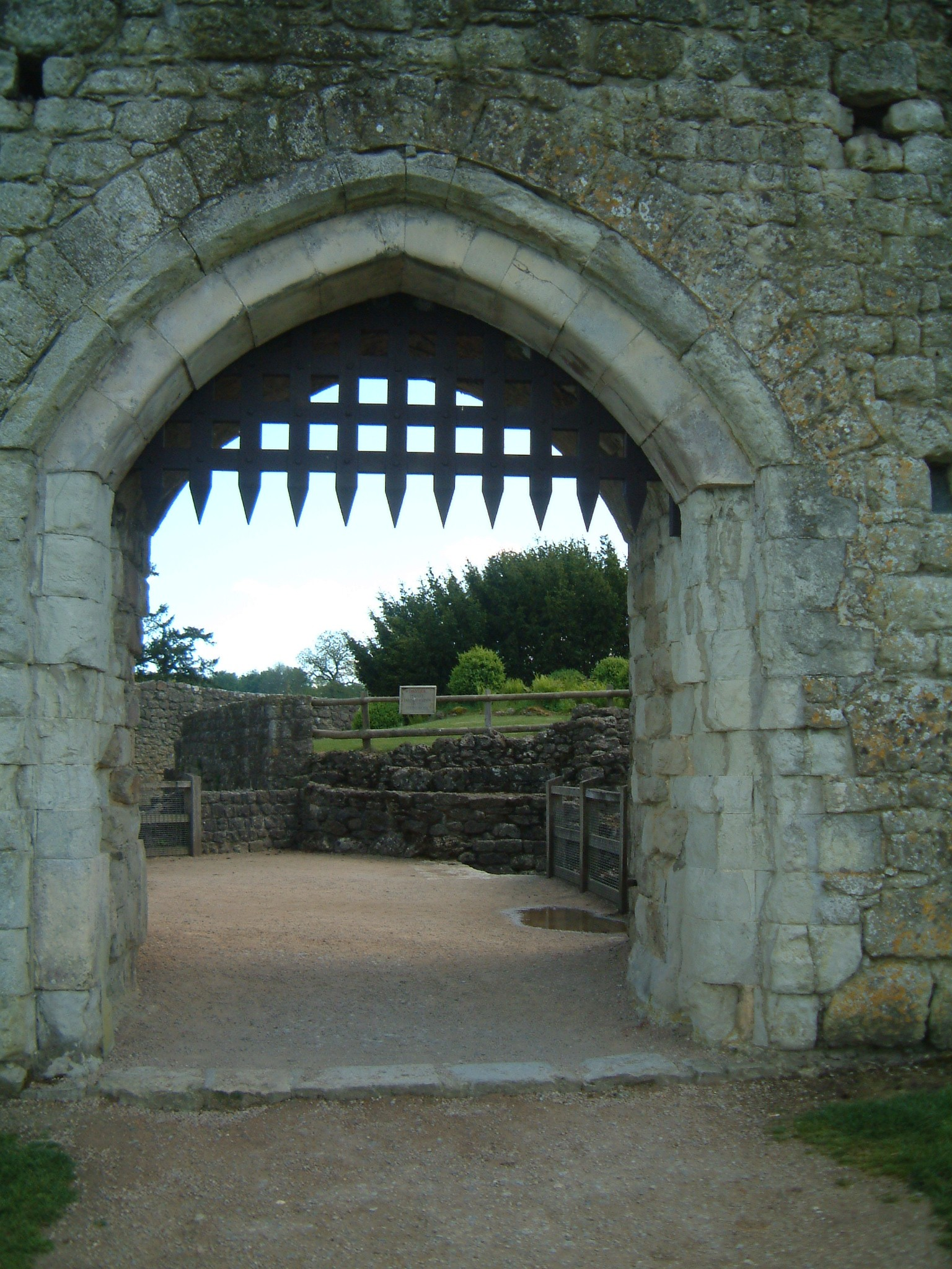 Leeds Castle - Entrance Barbican and old mill